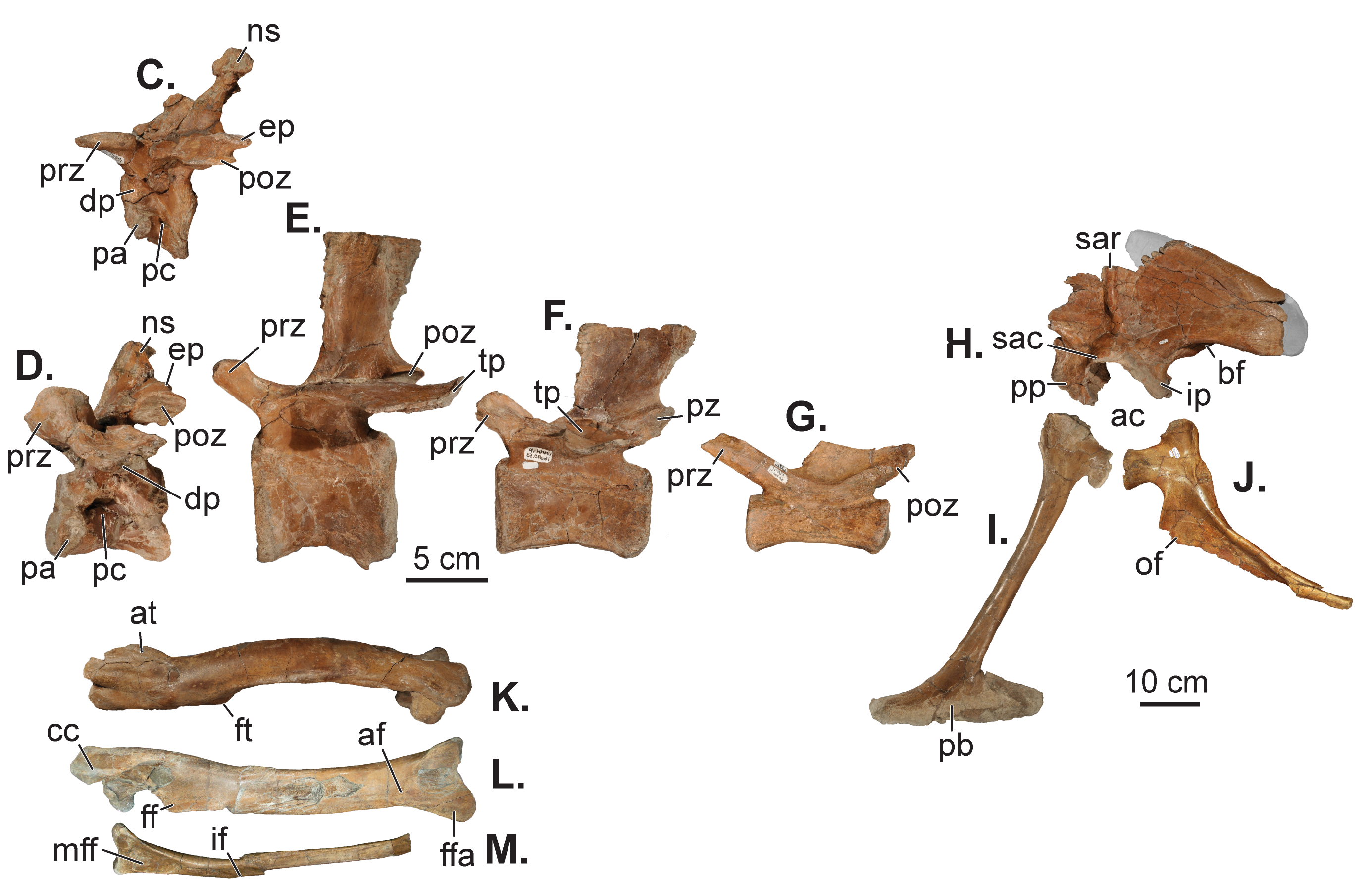 Selected postcranial elements of Teratophoneus in left lateral view: (C) cervical vertebra 3; (D) cervical vertebra 9; (E–G) three caudal vertebrae; (H) right ilium (photoreversed with left illium in the background in grayscale); (I) pubis; (J) ischium; (K) right femur in lateral view; (L) right tibia in anterior view; and (M) right fibula in medial view.